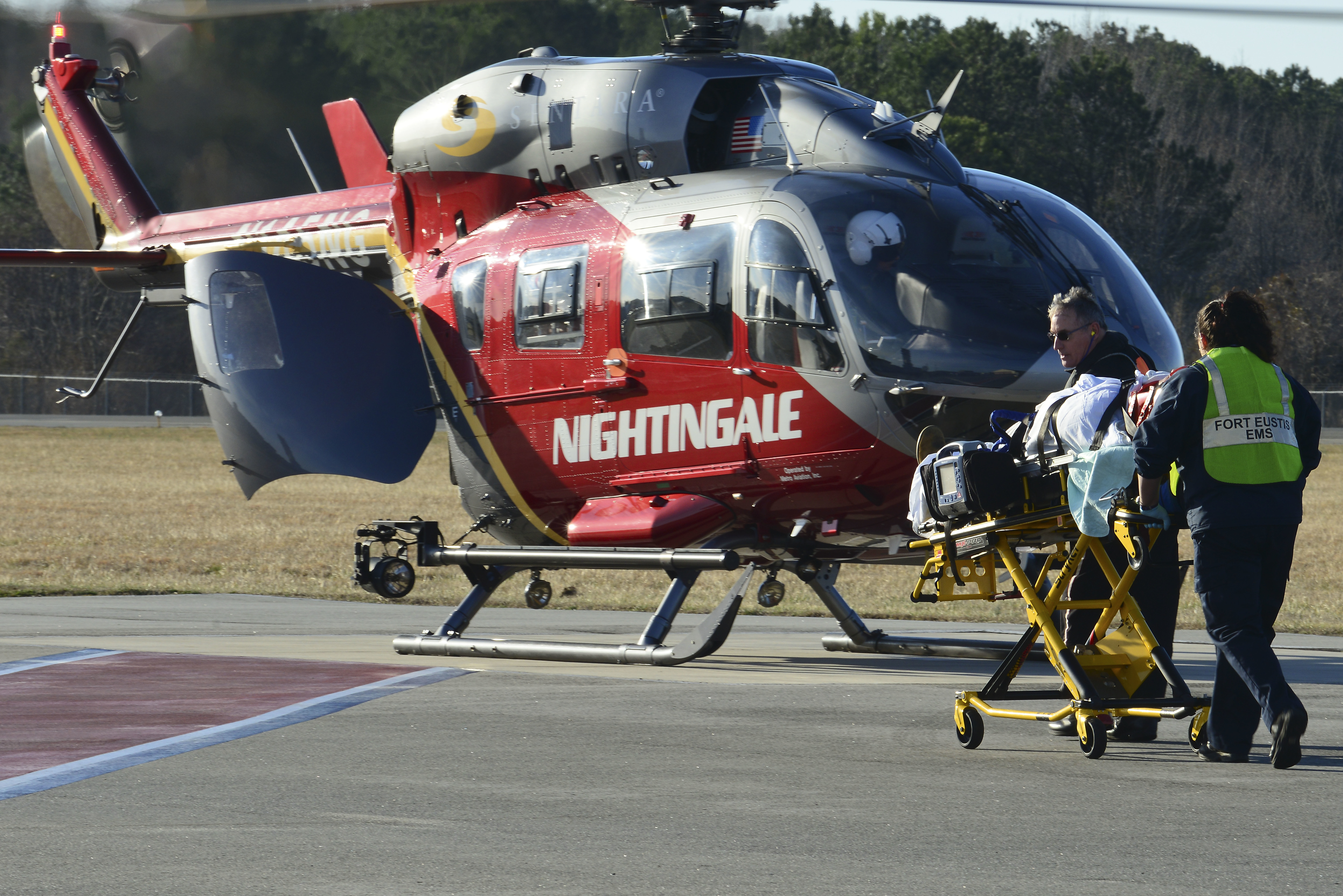 Emergency responders from the McDonald Army Health Center Installation Support Team and Sentara Norfolk General Hospital simulate transporting a patient to a medical evacuation helicopter during a full-scale helicopter crash exercise at Fort Eustis, Va., March 13, 2015. As part of the exercise, the medical helicopter was called in from the 733rd Civil Engineer Division Fire Department to assist them with a simulated critical patient. (U.S. Air Force photo by Senior Airman Kimberly Nagle/Released)